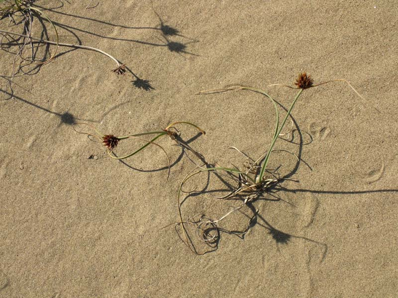 Cyperus kalli Photo taken on Castel Fusano coastal dune system (Rome province. Latium, central Italy). Photo by Massimilaino Marcelli.